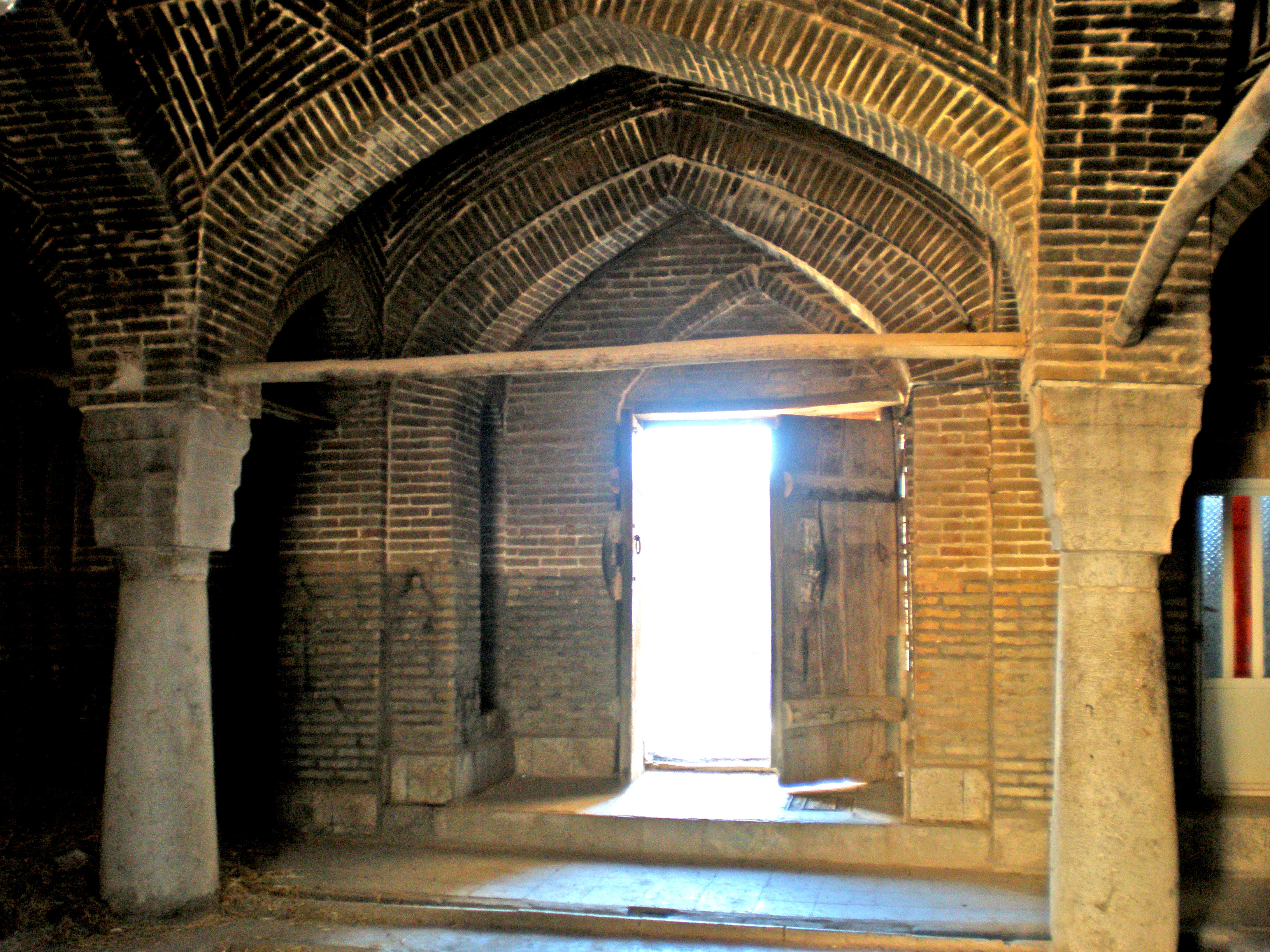 The guesthouse of Jame Mosque of Borujerd